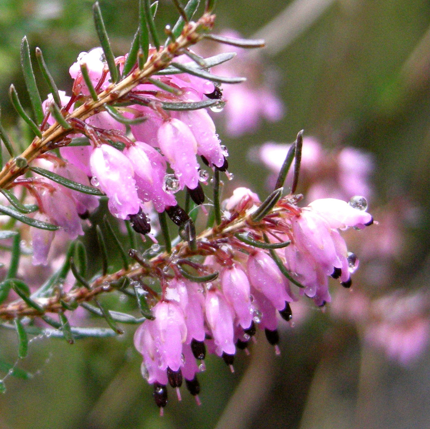 Closeup of Calluna vulgaris in Yorkshire, February 2011. Note from uploader: I have been informed that the description is incorrect, and that the image is of Erica carnea. If anyone could kindly add an online citation to prove this, then we can correct the description. Thank you.